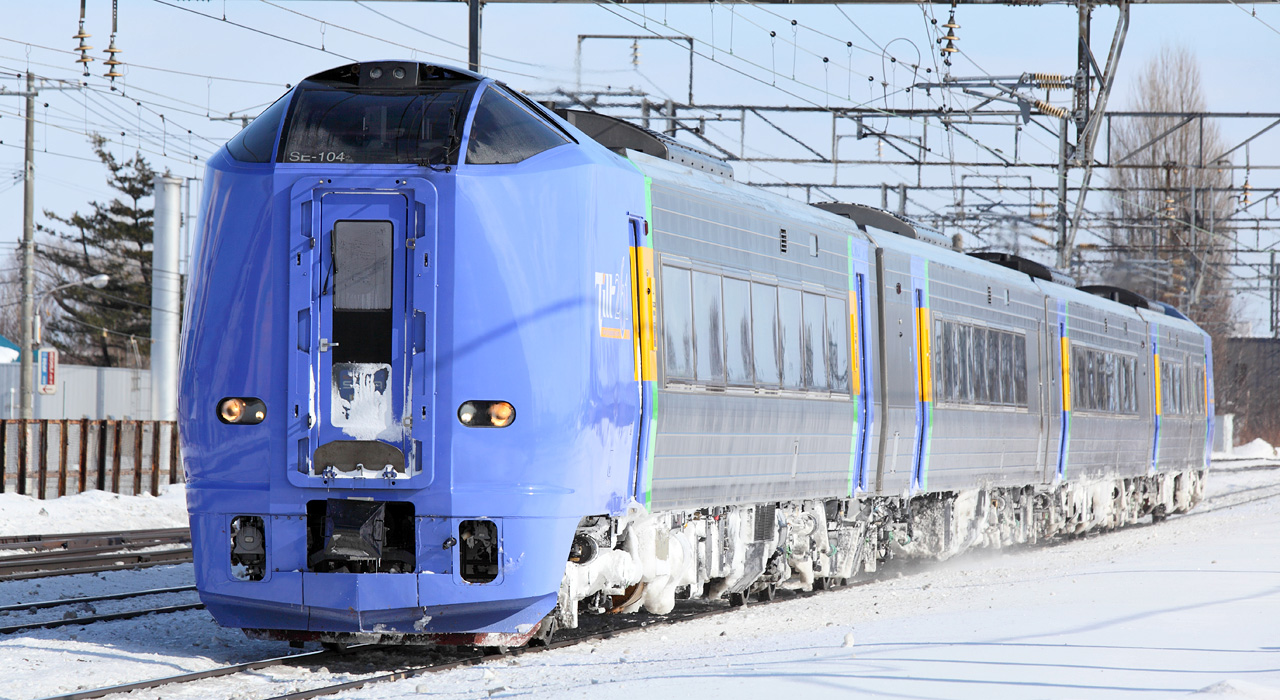 JR Hokkaido KiHa 261 series DMU set SE104 on the Super Soya 2 limited express service (train number 2032D) on the Hakodate Main Line between Shiroishi and Naebo stations